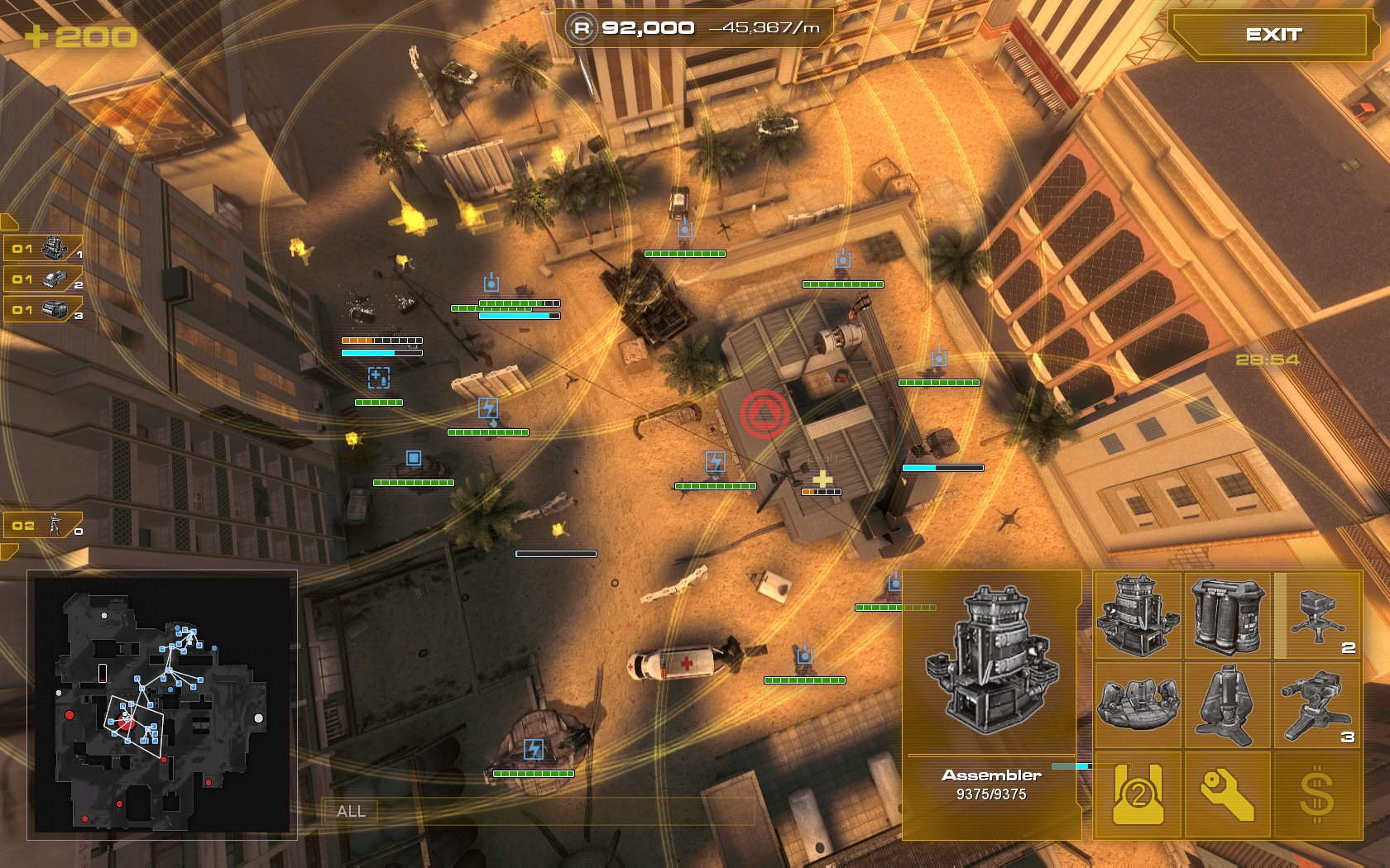 Nuclear Dawn screenshot depicting the Dubai based Oasis map from the commander's real-time strategy interface. Released in 2011, the game was developed by Interwave Studios and built on the Source engine.